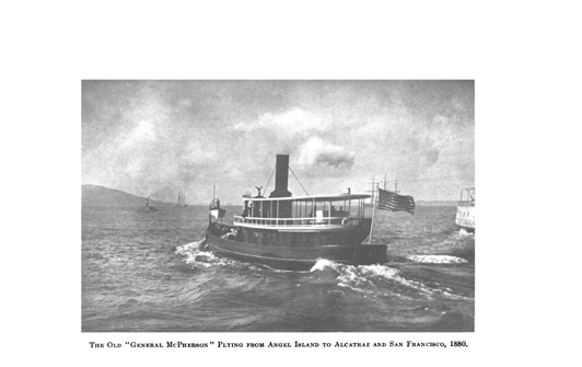 General McPherson, a steamer operated by the US military in the San Francisco Bay area between 1867 and 1886.